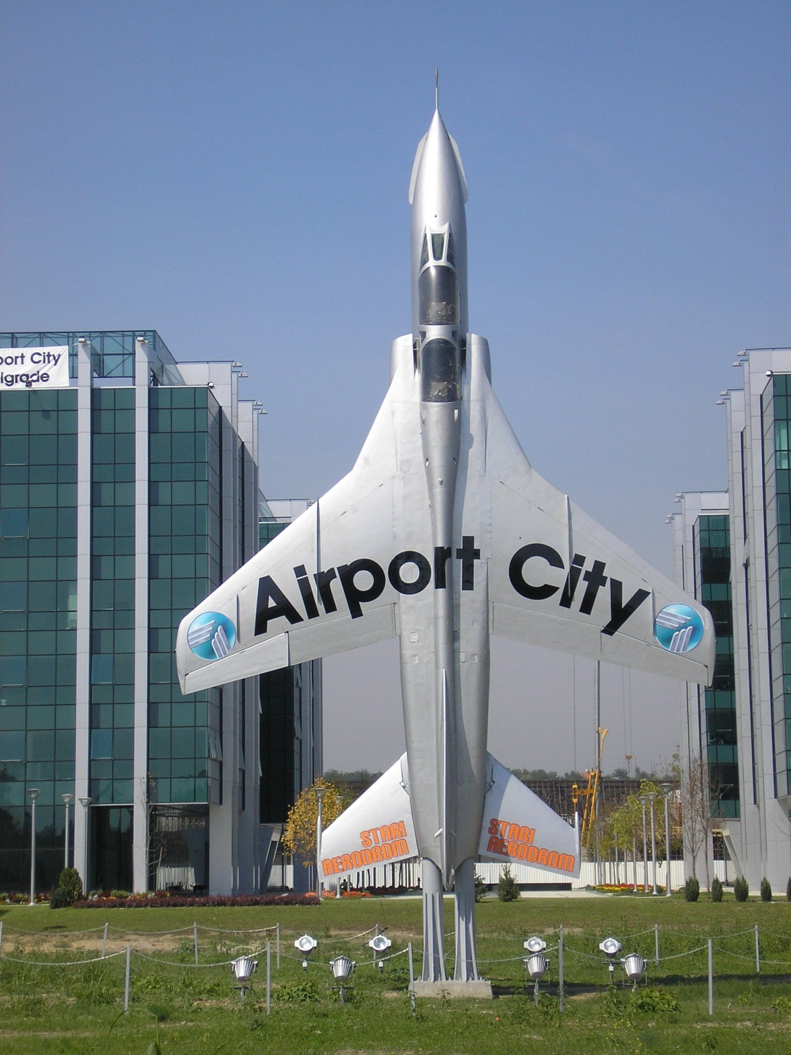 An airplane model (Soko J-22 Orao, Ј-22 Орао) near the old airport on Novi Beograd